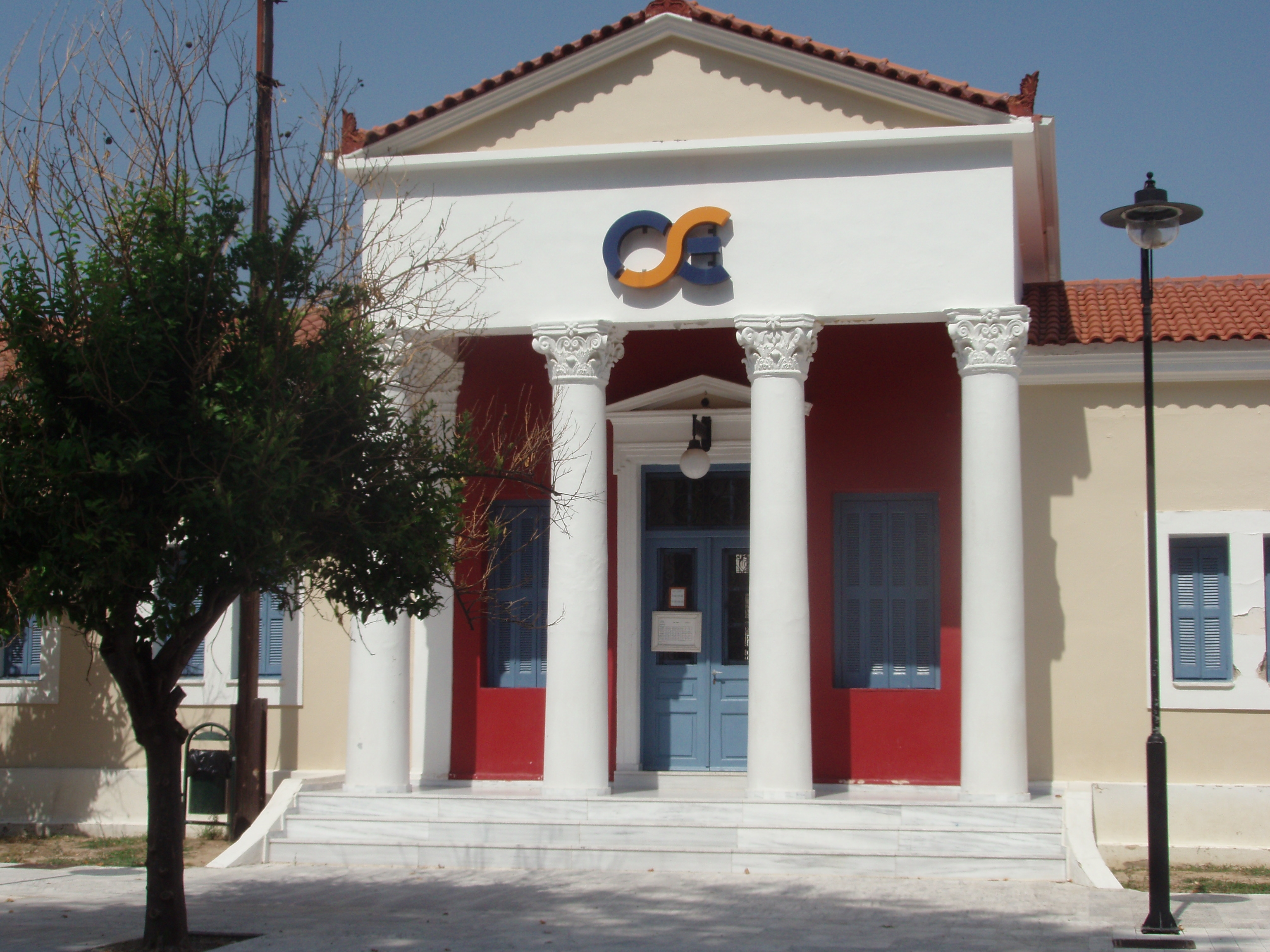 Railway station of Olympia (Ancient Olympia, Archea Olympia), Peloponnese, Greece. The street-oriented facade of the station's building is shown